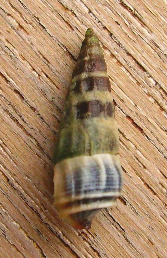 Zeacumantus lutulentus from Auckland, New Zealand. This work has been released into the public domain by its author, Graham Bould. This applies worldwide.In some countries this may not be legally possible; if so:Graham Bould grants anyone the right to use this work for any purpose, without any conditions, unless such conditions are required by law.